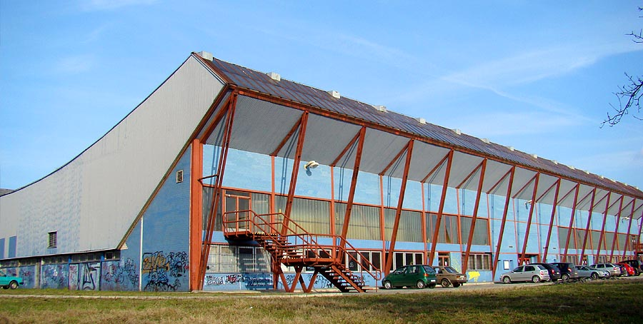 Ice stadium - Nové Zámky (SK)